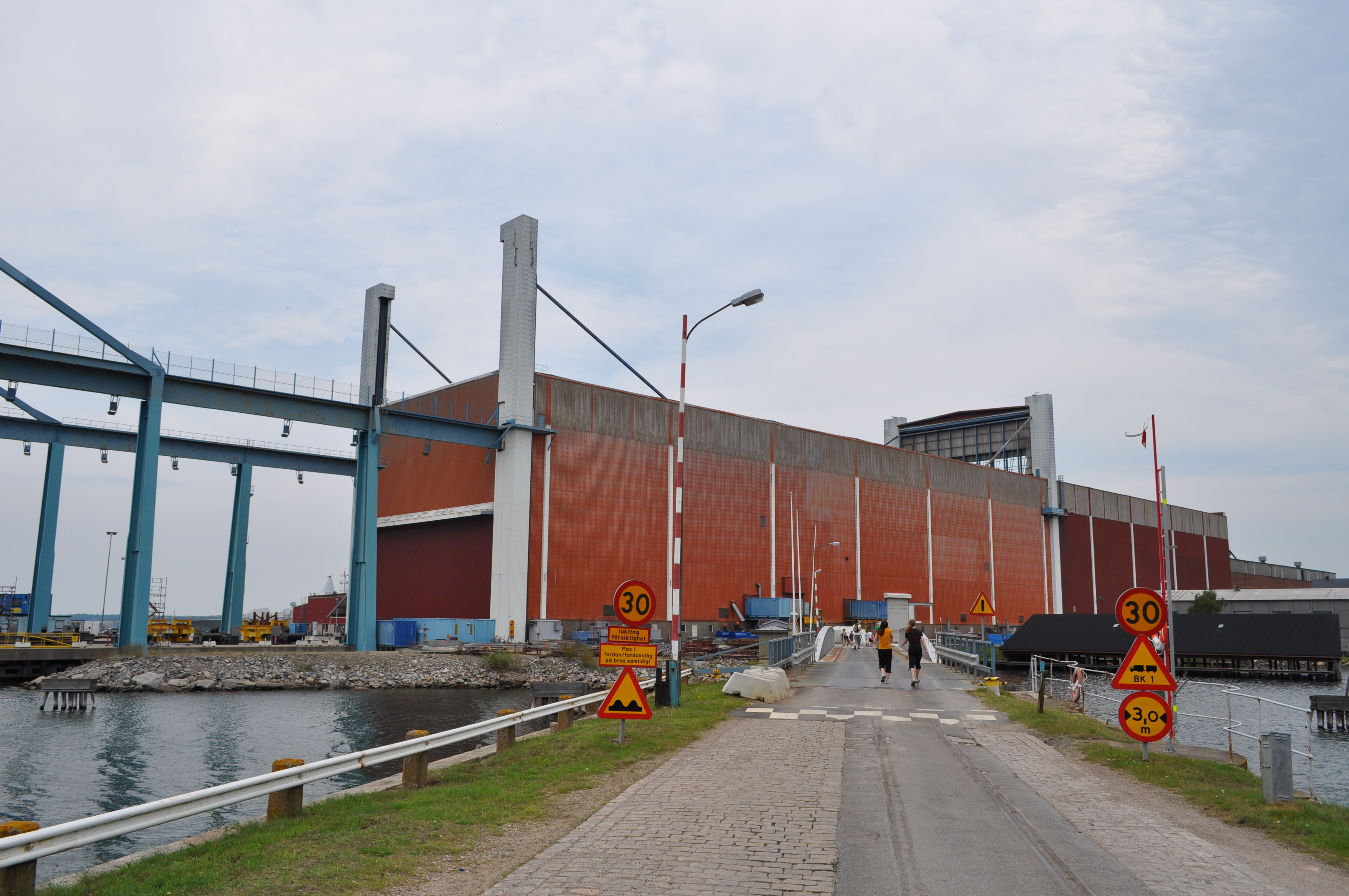 Karlskrona shipyard - Nybyggnadshallen